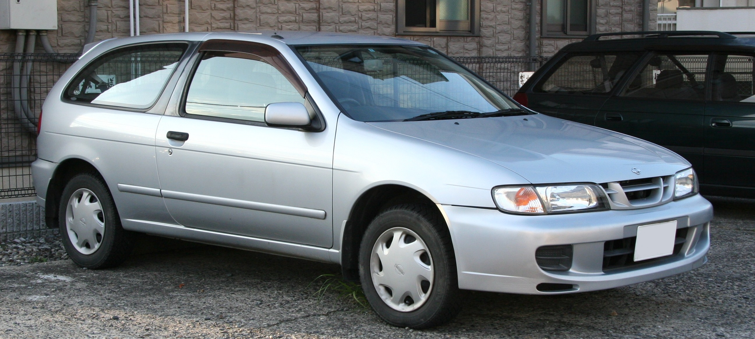 NISSAN Pulsar Serie